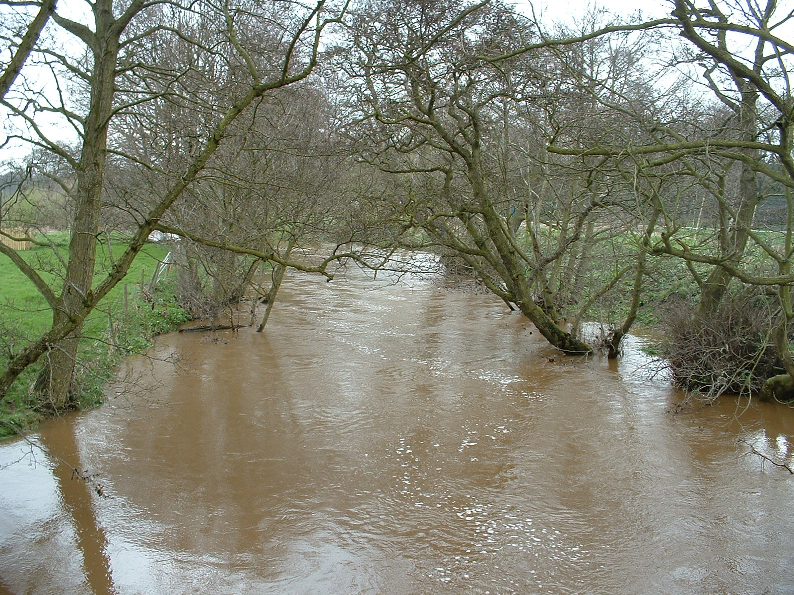 The River Rye near Nuggington, North Yorkshire, UK. Following heavy rain, the river was quite swollen.